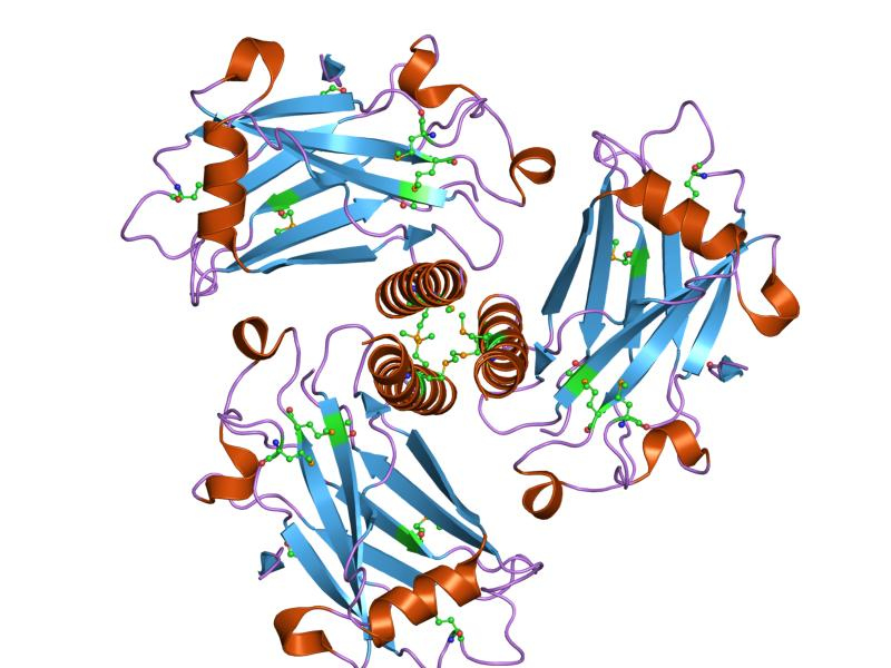 Cartoon representation of the molecular structure of protein registered with 1qsc code.